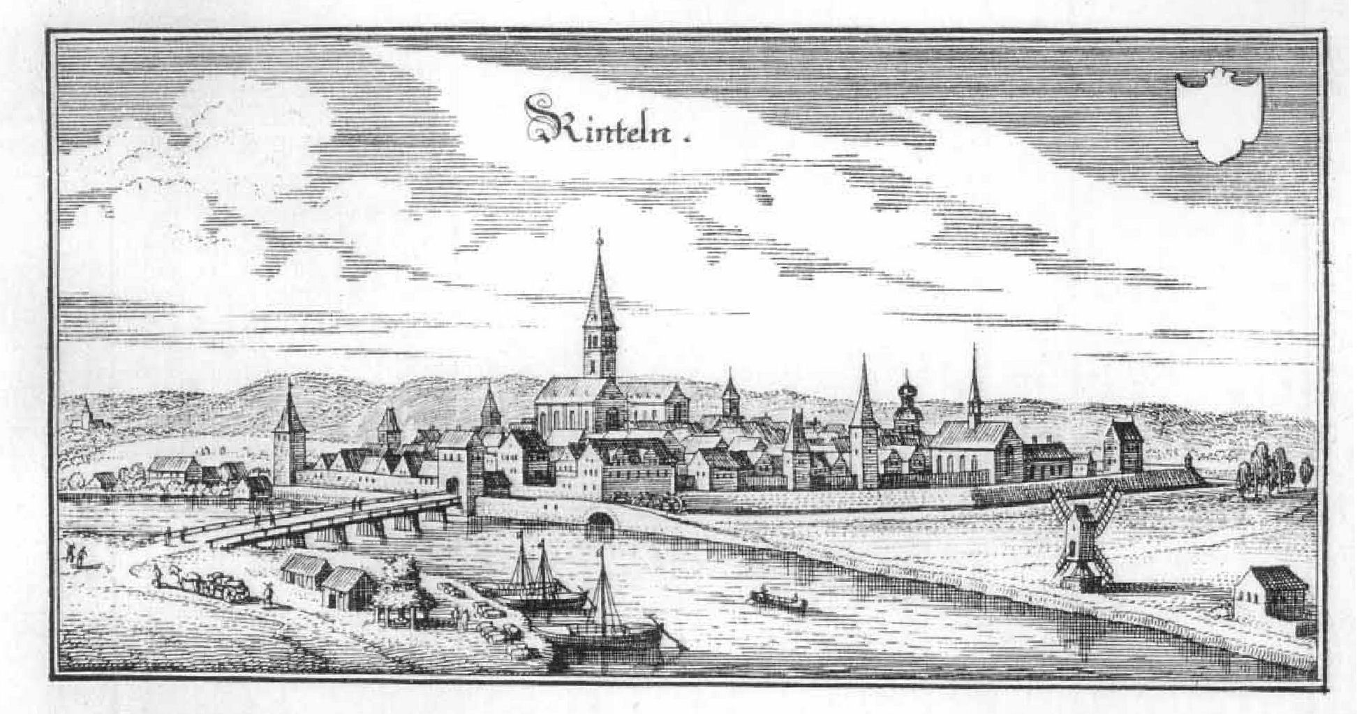 This is a scan of the historical document:Publication date 1647publication_date QS:P577,+1647-00-00T00:00:00Z/9Source